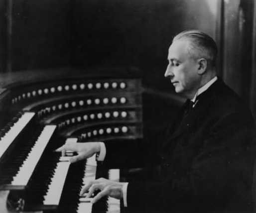 French organist and composer Marcel Dupré (1886-1971) playing at Saint-Sulpice in Paris.